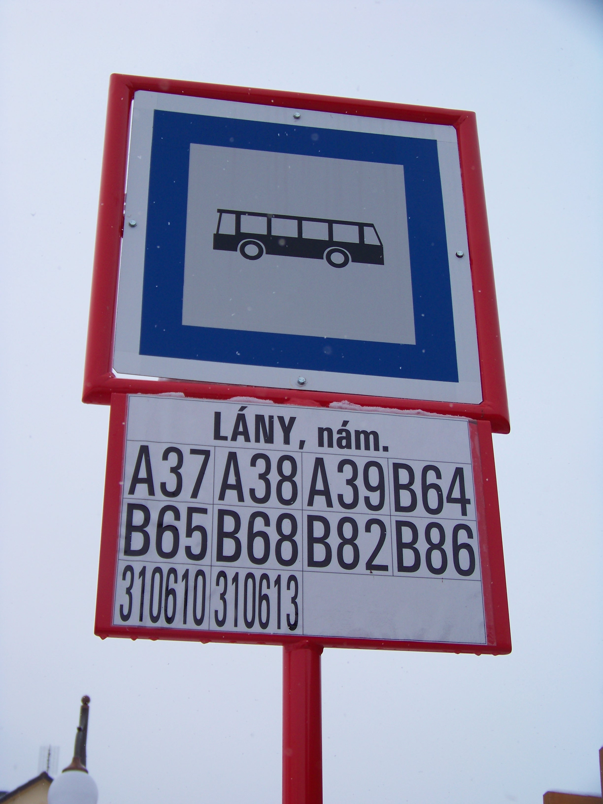 Lány, Kladno District, Central Bohemian Region, the Czech Republic. Masaryk's Square. A bus stop. - Google Maps - Google Earth